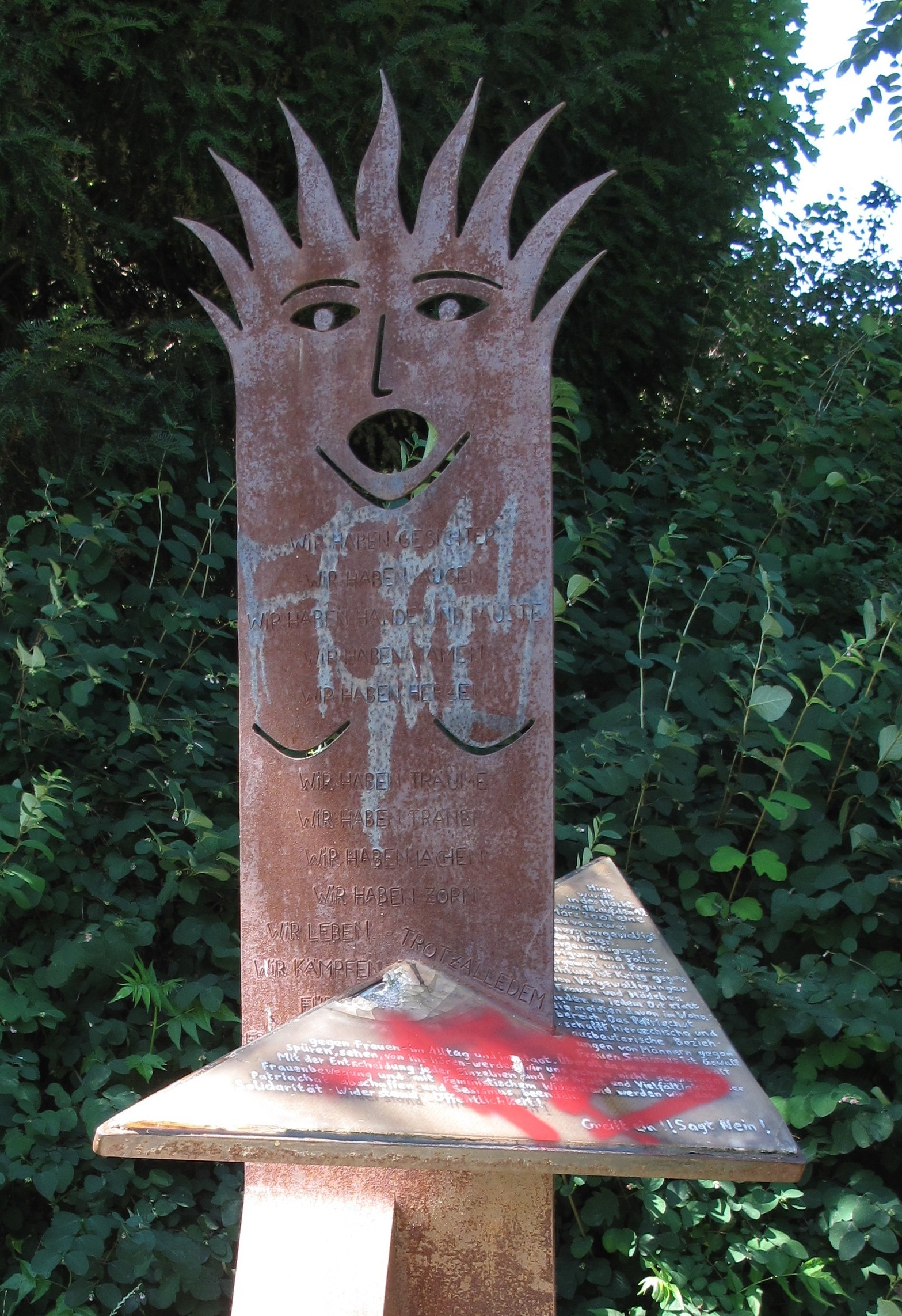 Wir haben Gesichter (german for: We have faces) is the name of a memorial, created in 2005, which is directed against rapes. It is situated in the Viktoriapark in Berlin-Kreuzberg and commemorates to the rape of a woman by two men in march 2002 at the place of the memorial.